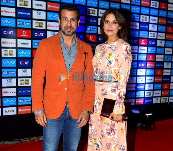 Ronit Roy and Neelam Singh at IPL 2016 opening ceremony